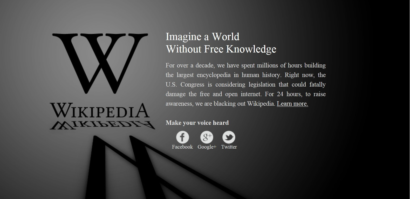 English version of Wikipedia During the Jan 18th 2012 blackout.